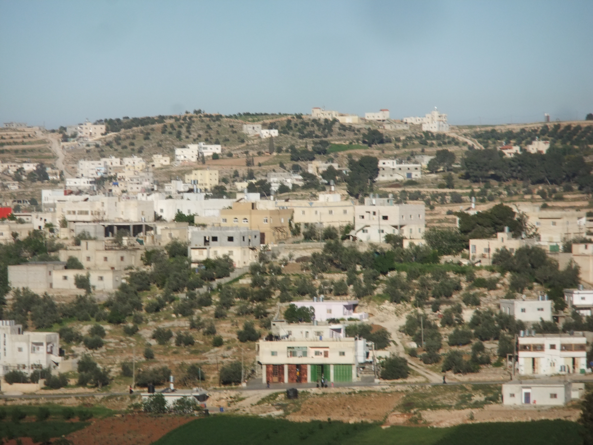 Rabud viewed from the east